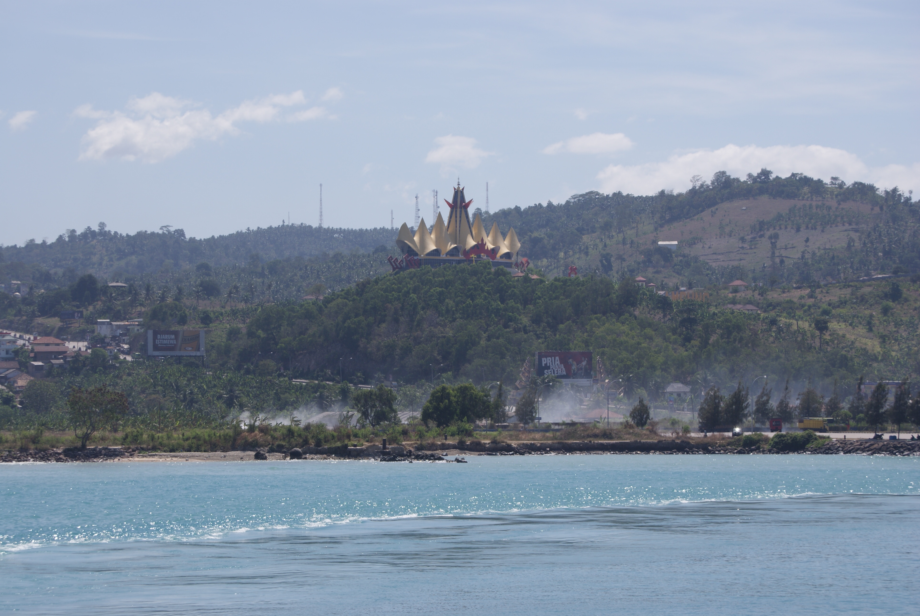 Siger Tower near Port of Bakauheni, South Lampung, Indonesia